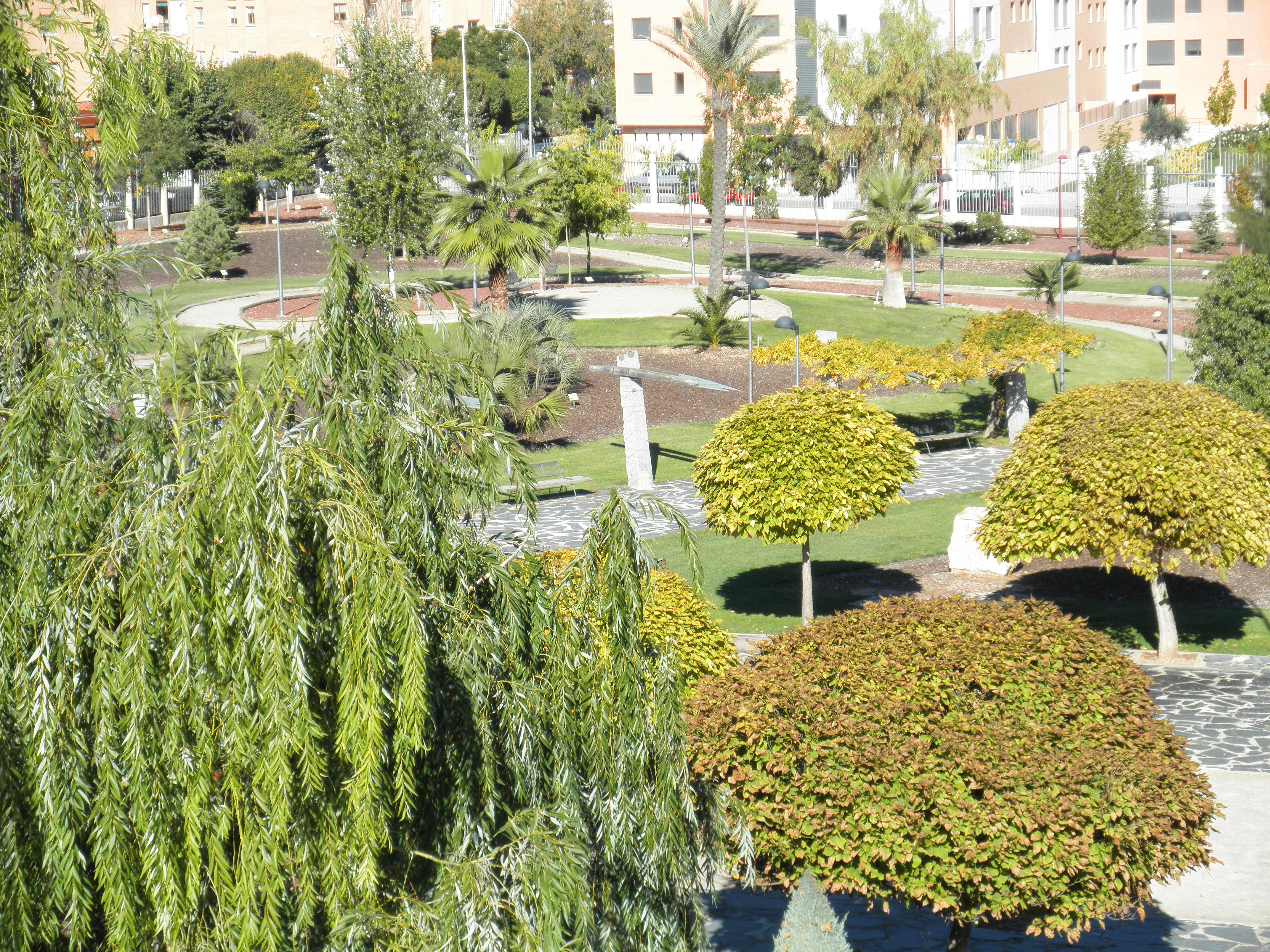 Arboretum partial view, Parque El Pilar de Ciudad Real, Spain